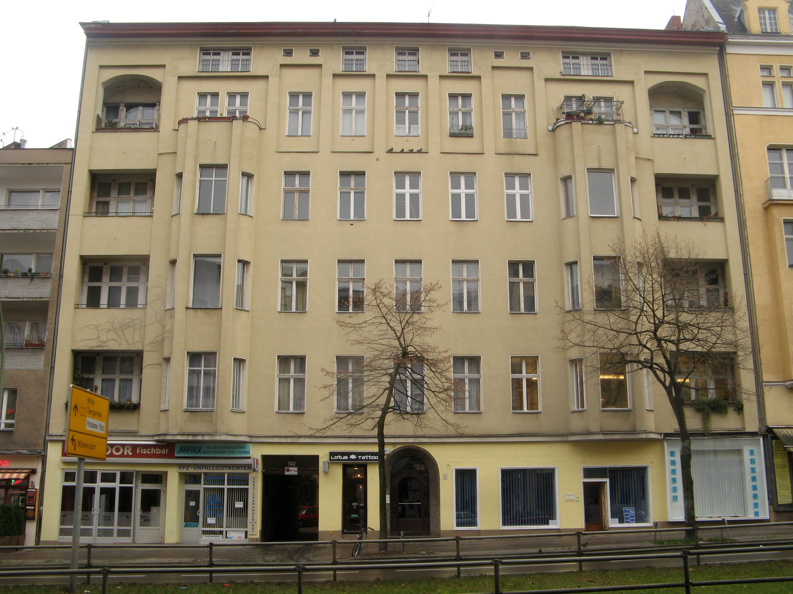 Hauptstrasse 155, former house of David Bowie, Iggy Pop and Jeffrey Eugenides in, Berlin, Germany